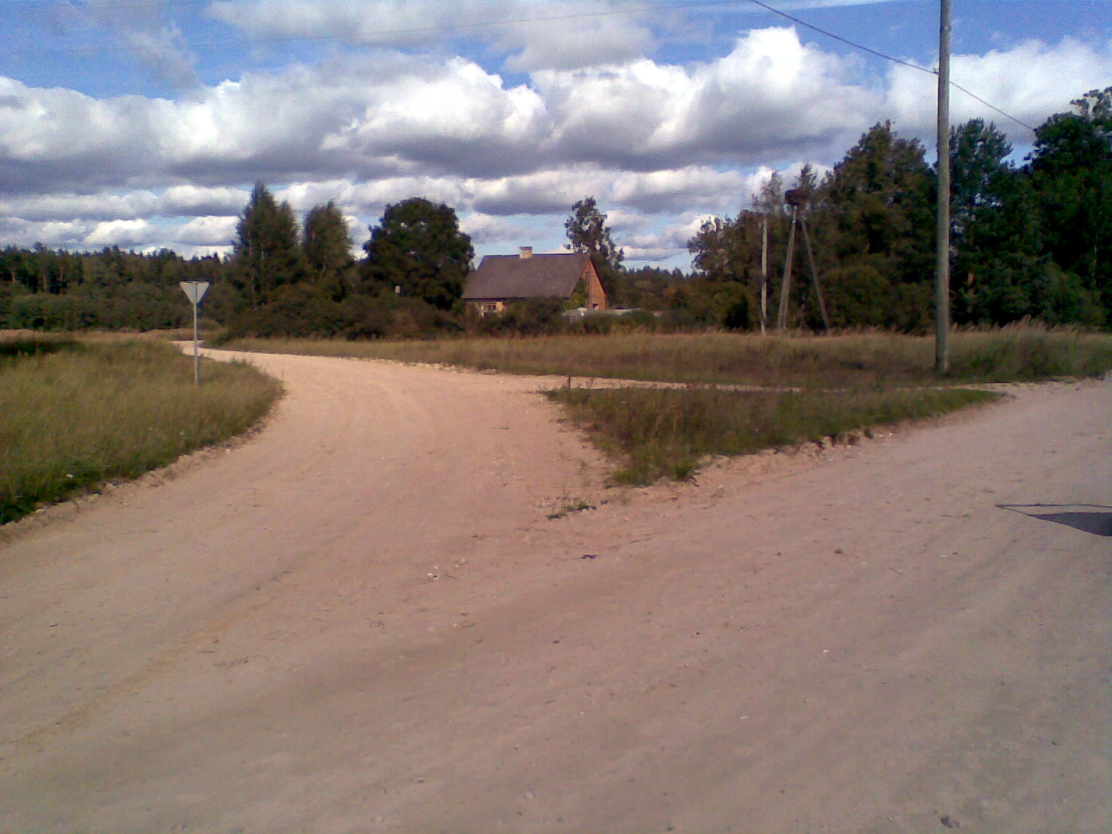 Crossroads near Zālīte, Latvia